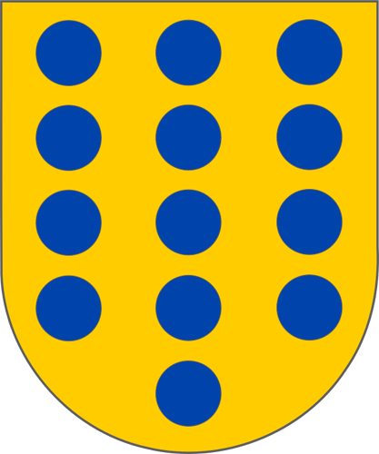 Coat of Arms of the Castro family, Counts of Basto